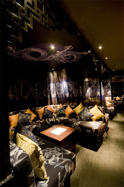 China White nightclub interior after the 2009 refurbishment completed by Phelan Construction company Ltd.Images taken near Regent street, London, UK